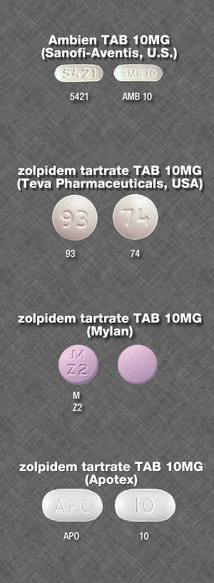 There is a sort of race that everyone is running now a days and everyone wants to be the first one to reach the finishing line and that is what is putting everyone under immense amount of pressure. This pressure although has forced human beings to improve their lives on a lot of points but it has also come up with the problems that simply can not be ignored at all. One of the major problems that have been caused due to this continuous hard work and stress is lack of sleep. If you buy ambien online to improve your sleep then you must follow the following instructions. Never take more than 10mg per day Never take it without prescription Never take it if you have to get up early Regular usage can even cause memory loss It can be highly addictive Never overdose. It can be fatal If you want to buy Ambien 10mg online, do it from a recognized pharmacy If you are having withdrawal symptoms, contact your doctor. Never have these pills for fun.)